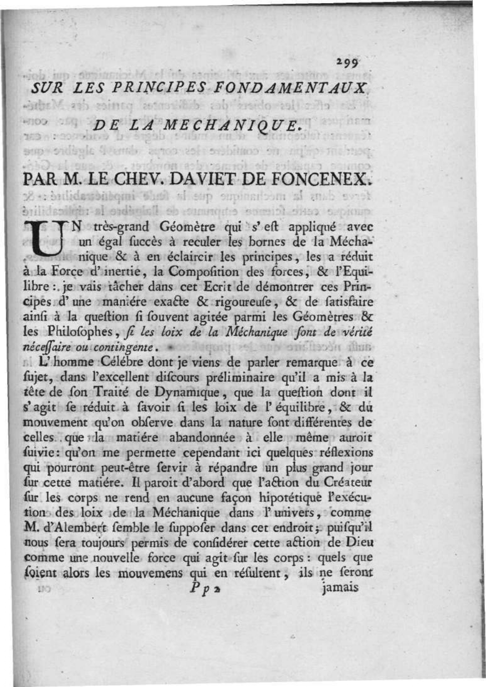 In this article, there is the first dimensional analysis